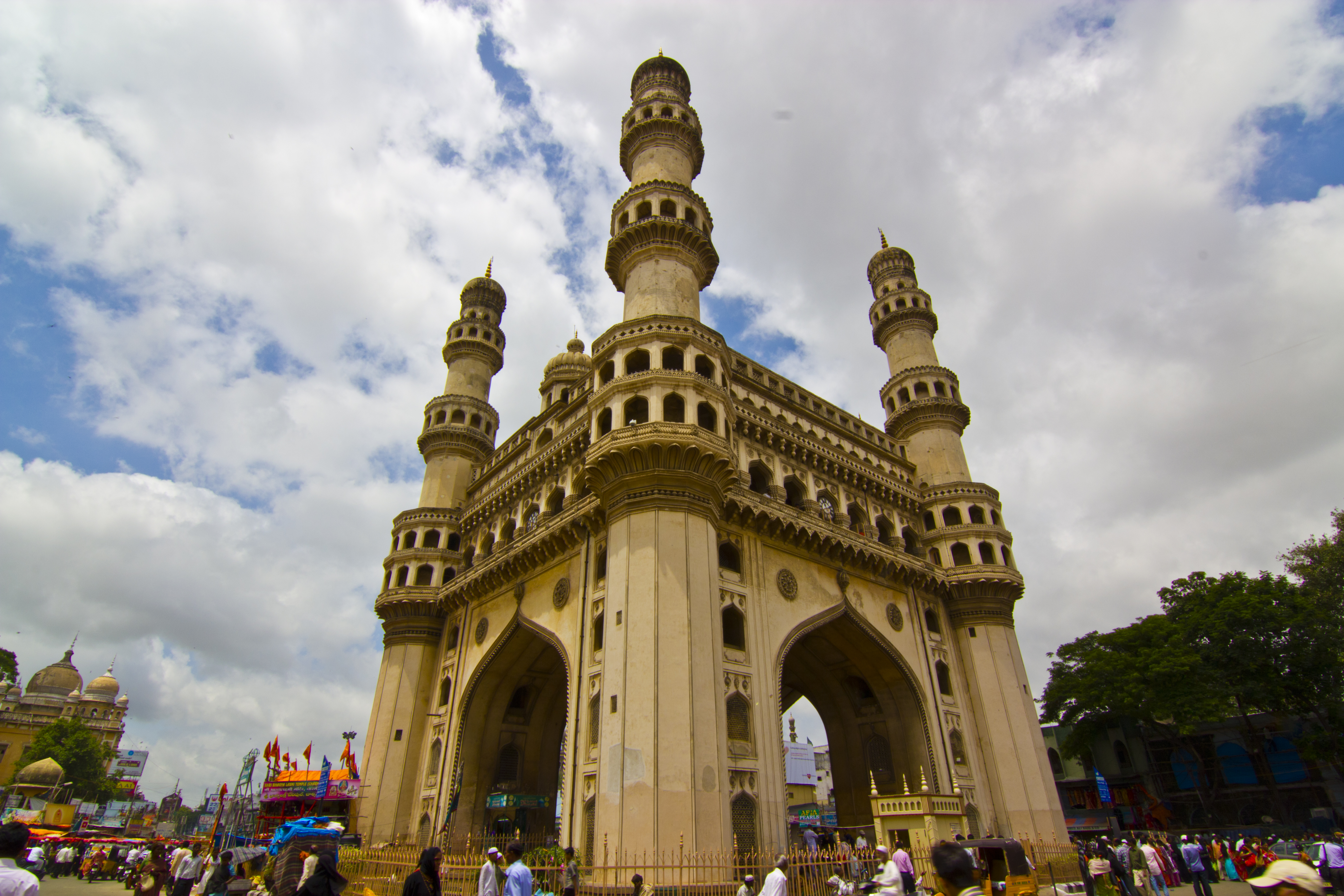 View of Charminar